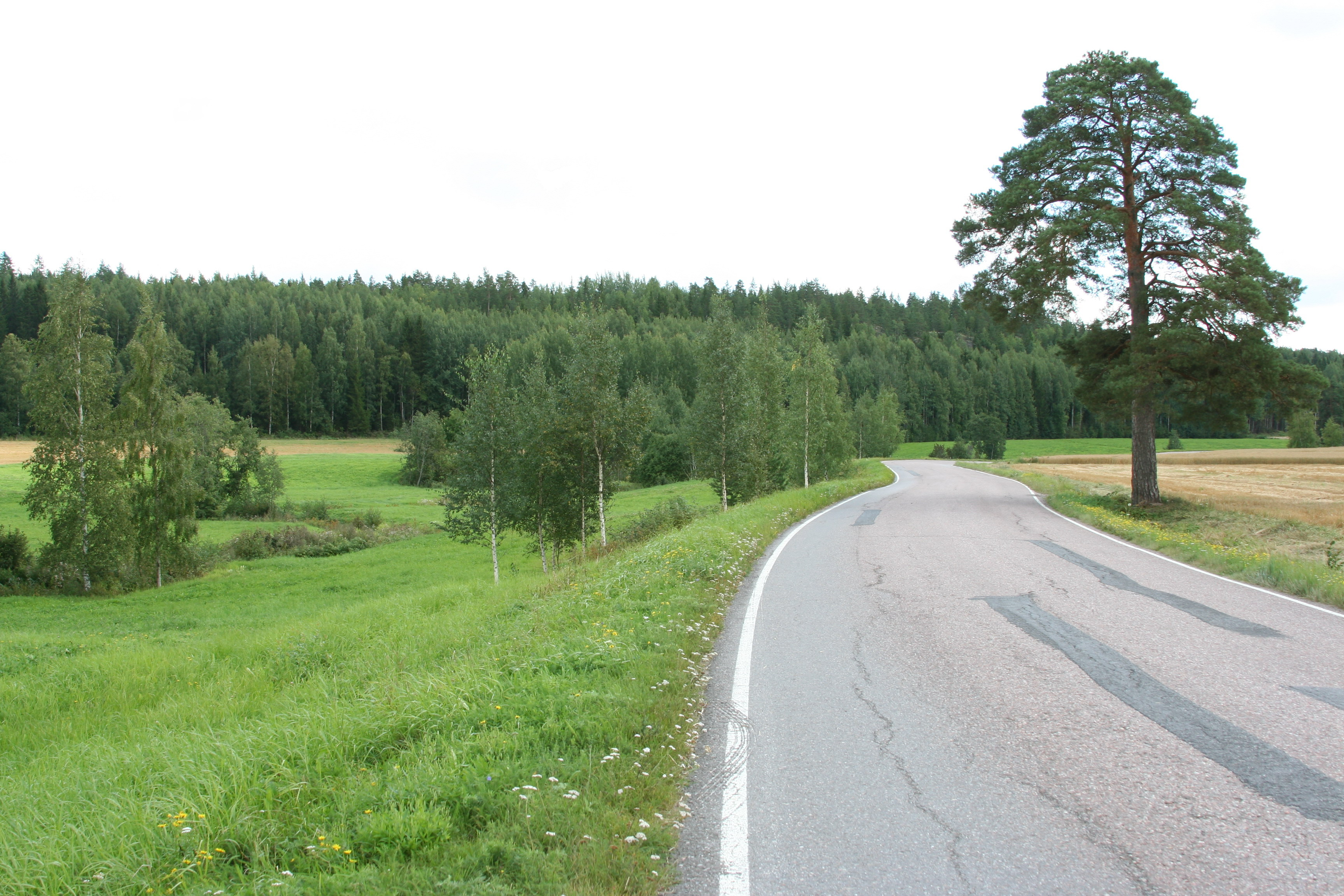 Old main road Turku–Tampere in northern Pöytyä, Finland. River Aura is on the left side of the road. Connecting (local) road 12451.